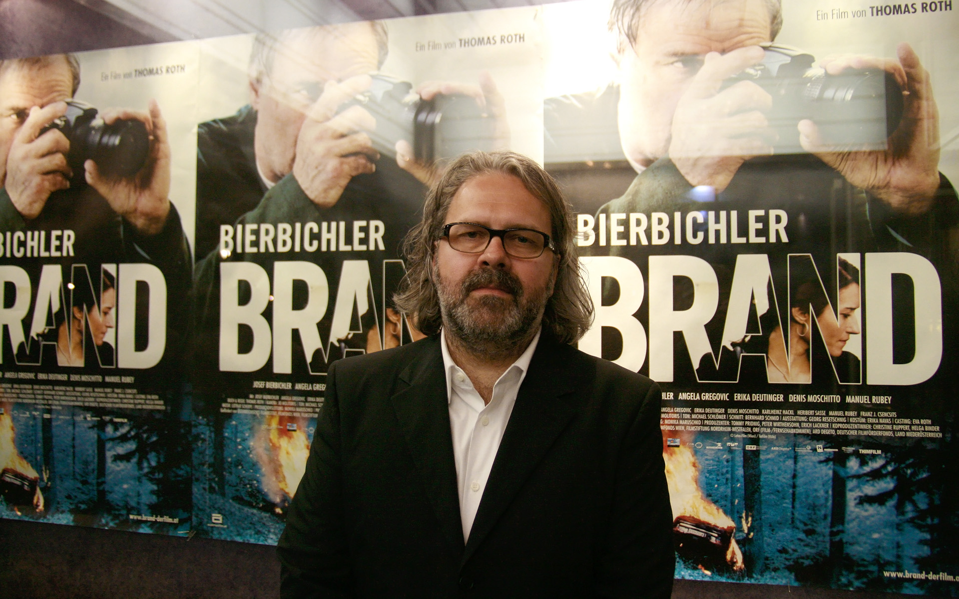 Thomas Roth at the premiere his movie 'Brand' (Gartenbaukino, Vienna).